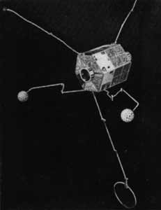 Explorer 40, Injun C, Injun 5, IE-C, Ionosphere Explorer-C